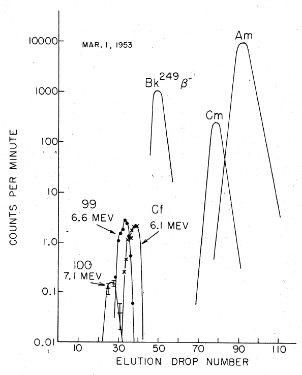 Elutionkurves Fm Es Cf Bk Cm Am